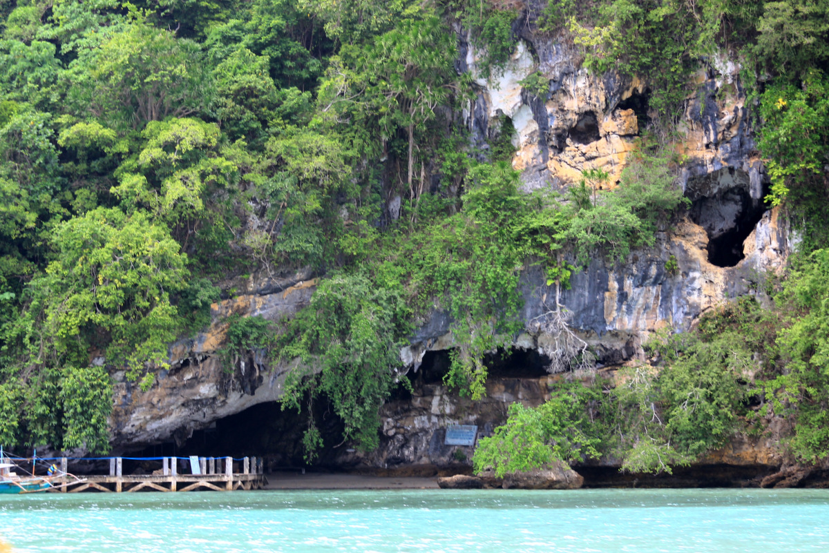 View of Tabon Cave Complex site in Lipuun Point, Quezon, Palawan (July 2014)